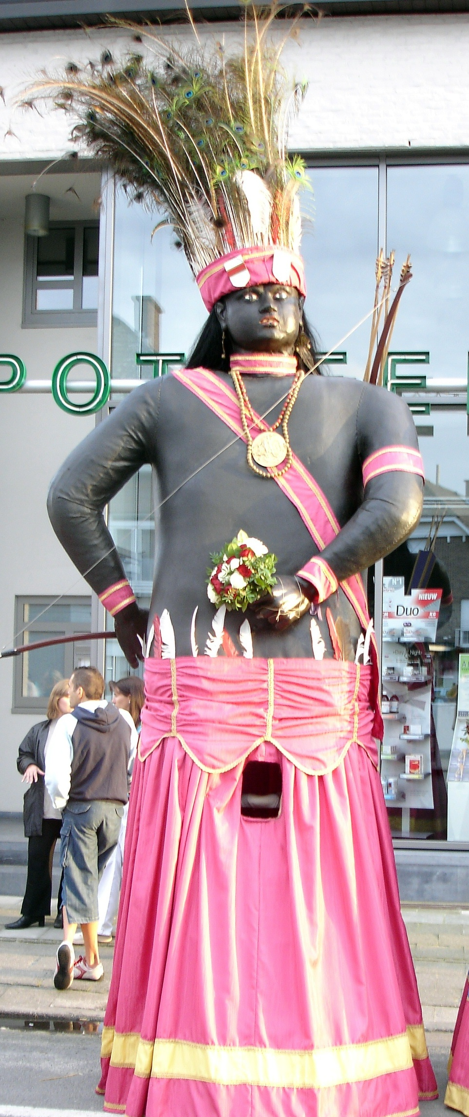 own work